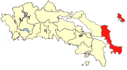 karystia province